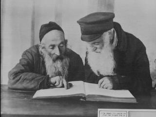 ('Jewish Daily Forward' caption in Yiddish:) "...They get in a chapter of Mishnah in the synagogue." (In